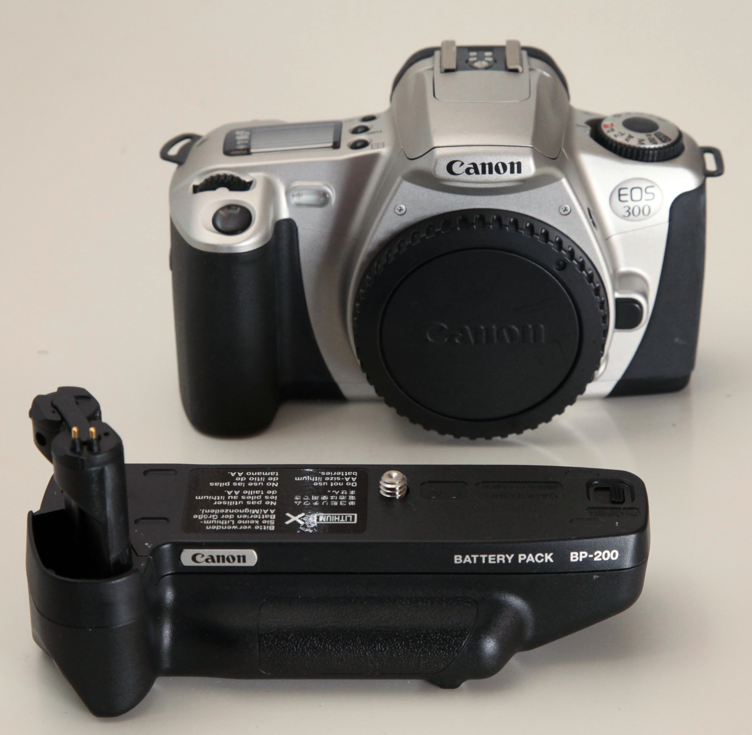 Film camera Canon EOS 300 with detached battery pack BP-200.